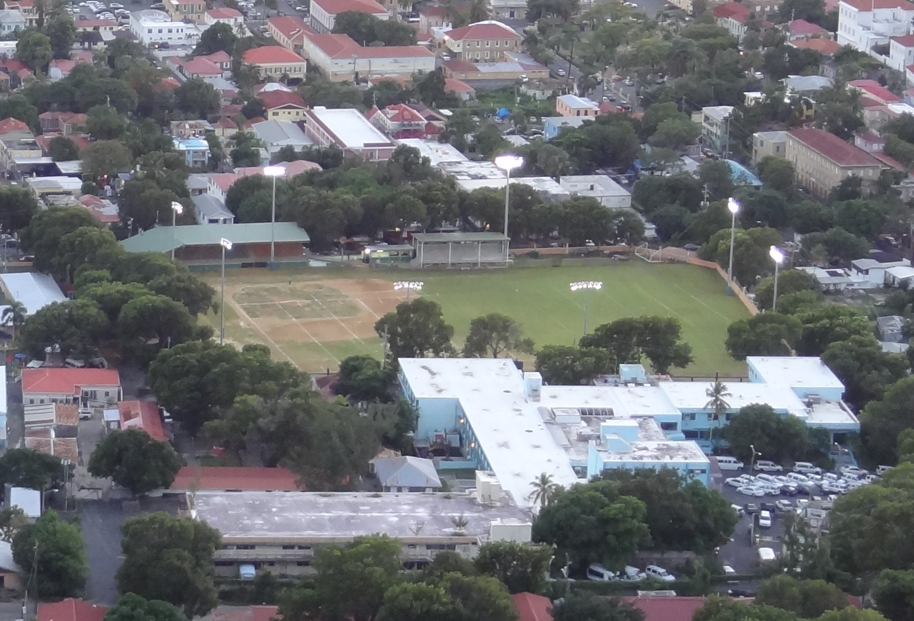 Lionel Roberts Park, a multi-use stadium in the US Virgin Islands. Home to the US Virgin Islands national soccer teams.